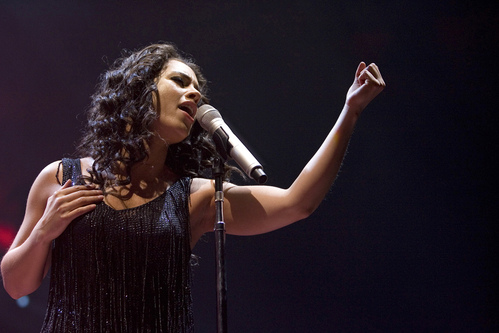 Alicia Keys performing, March 20, 2008.